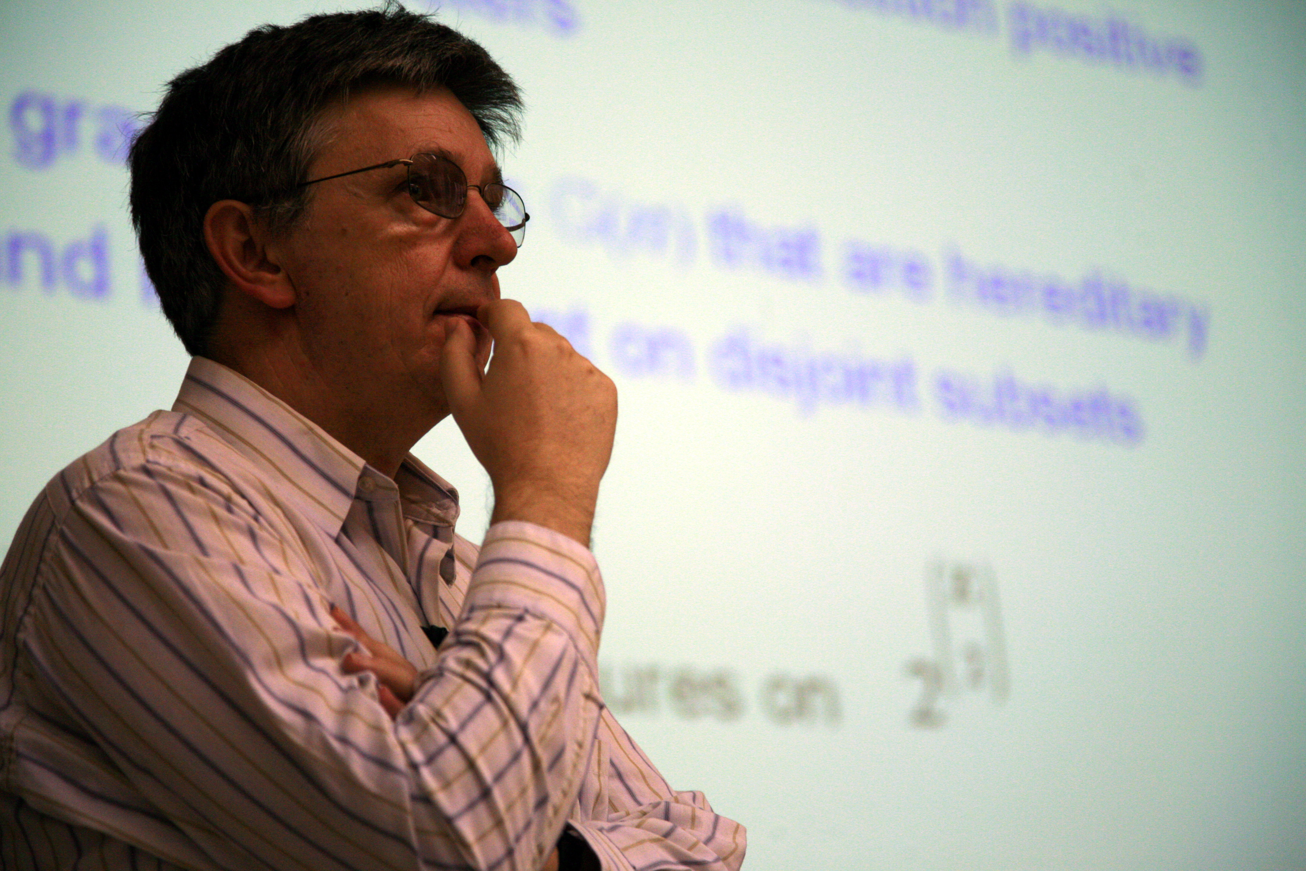 Laszlo Lovasz at the EPFL, on the 14 March 2007